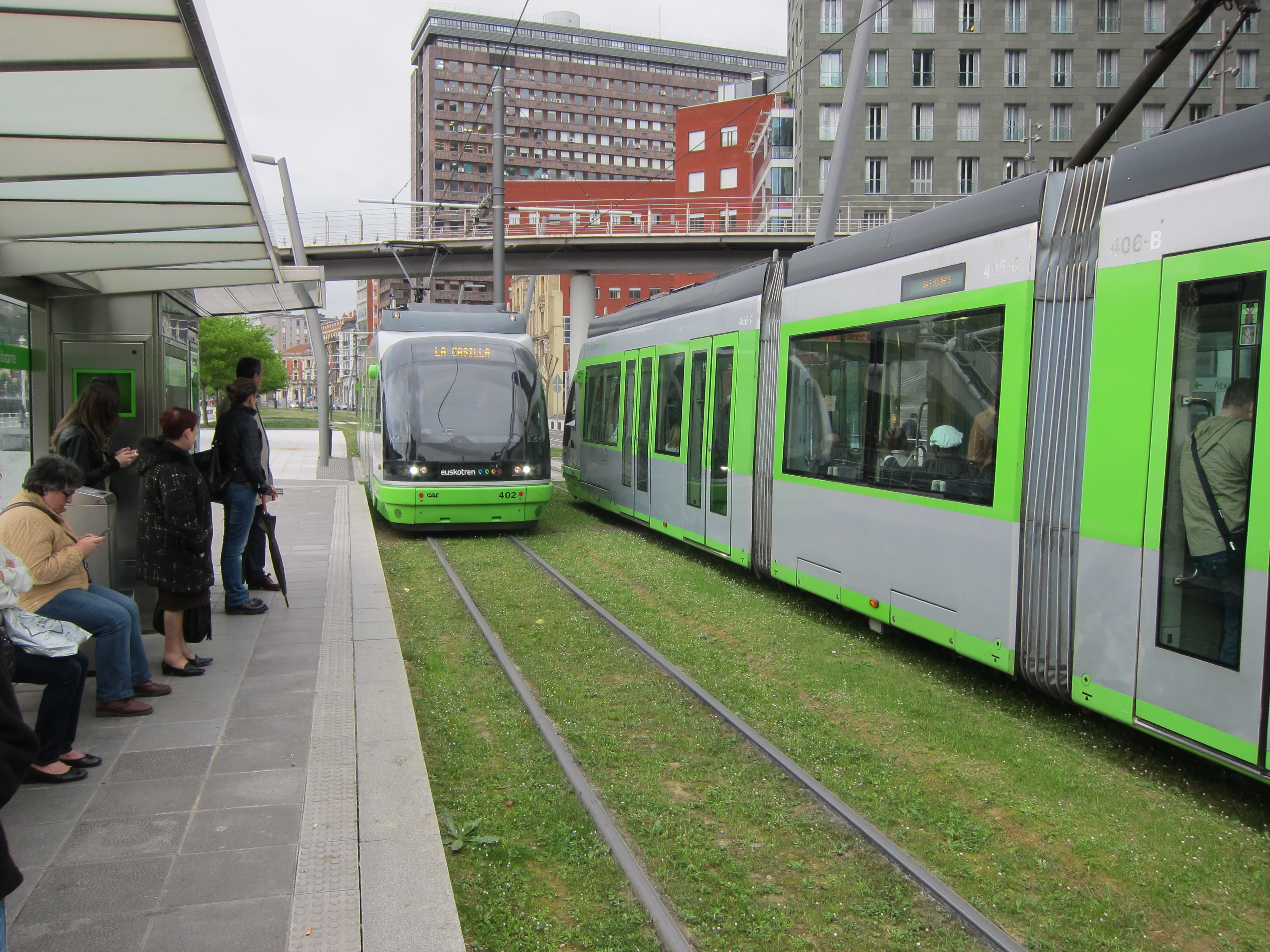 New Tram System